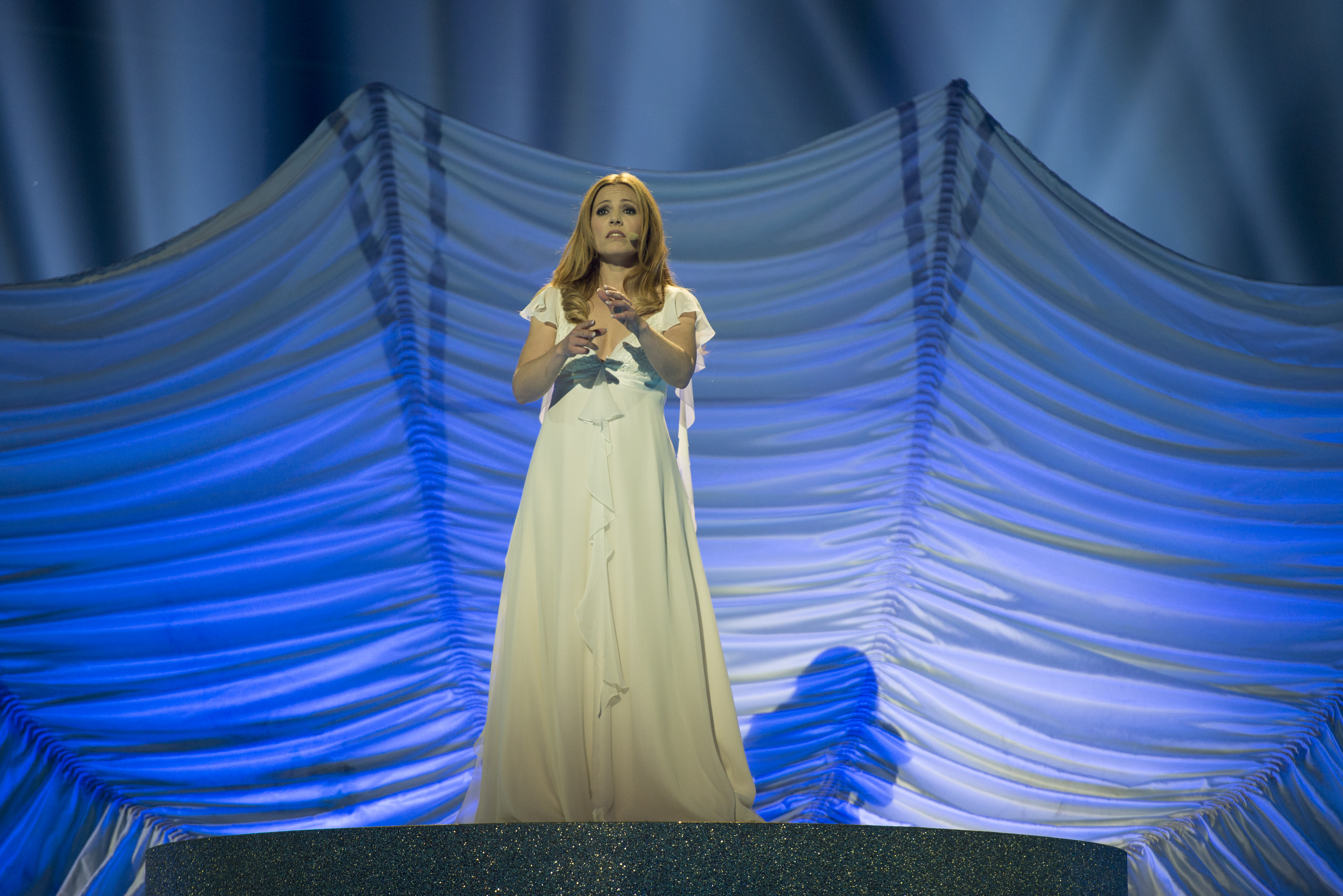 Valentina Monetta representing San Marino with the song "Maybe" during the first dress rehearsal of the first semi final of the Eurovision Song Contest 2014 Copenhagen. (Help translate this text)